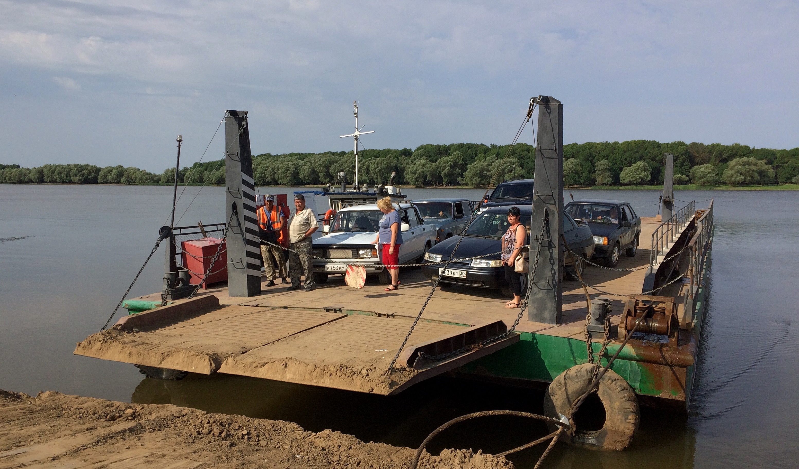 Ferry across the Kizan River in Kamyzyaksky District, Astrakhan Oblast